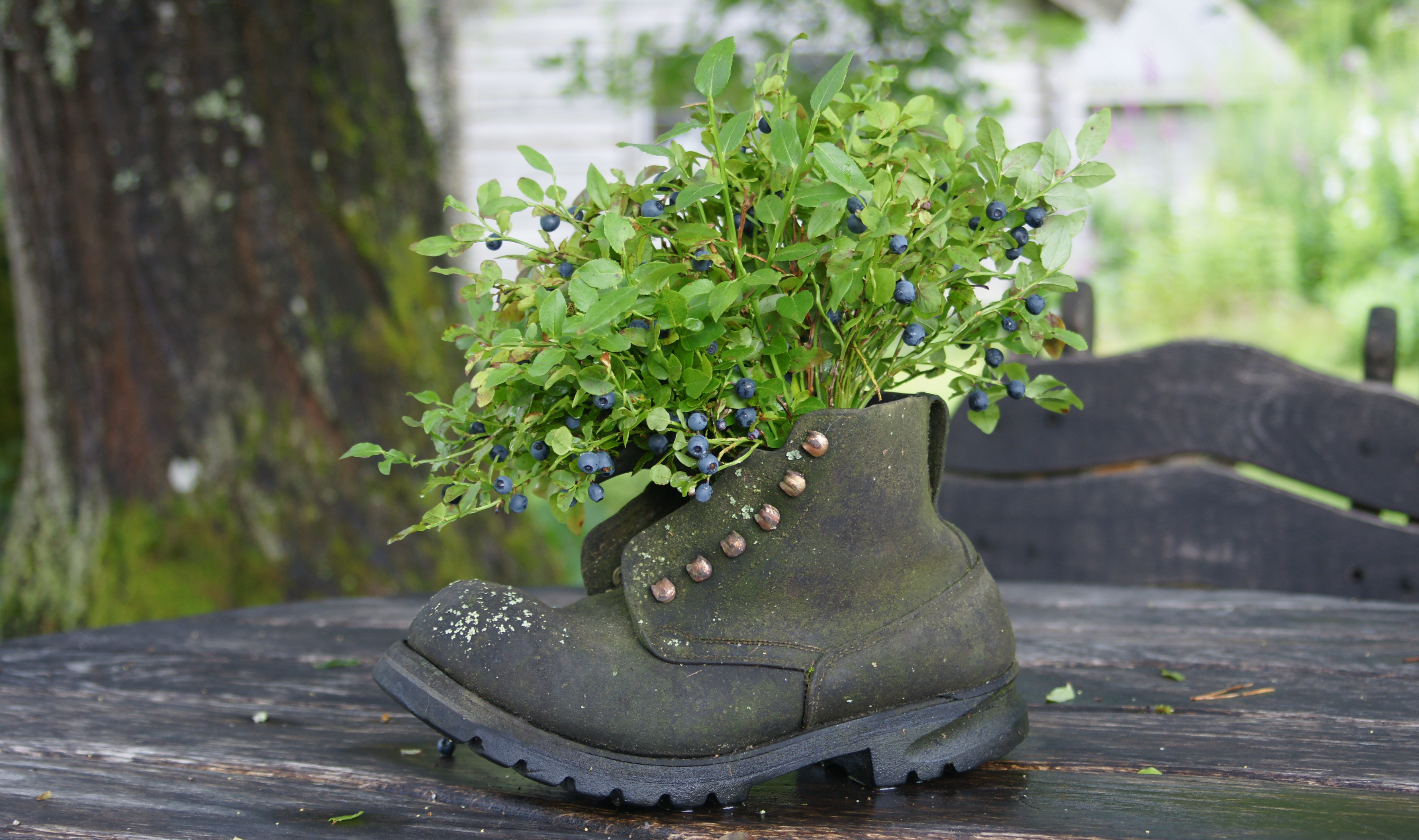 Shoe with blueberries, found in the garden of the Swedish artist Maria Westerberg (Vildhjärta).